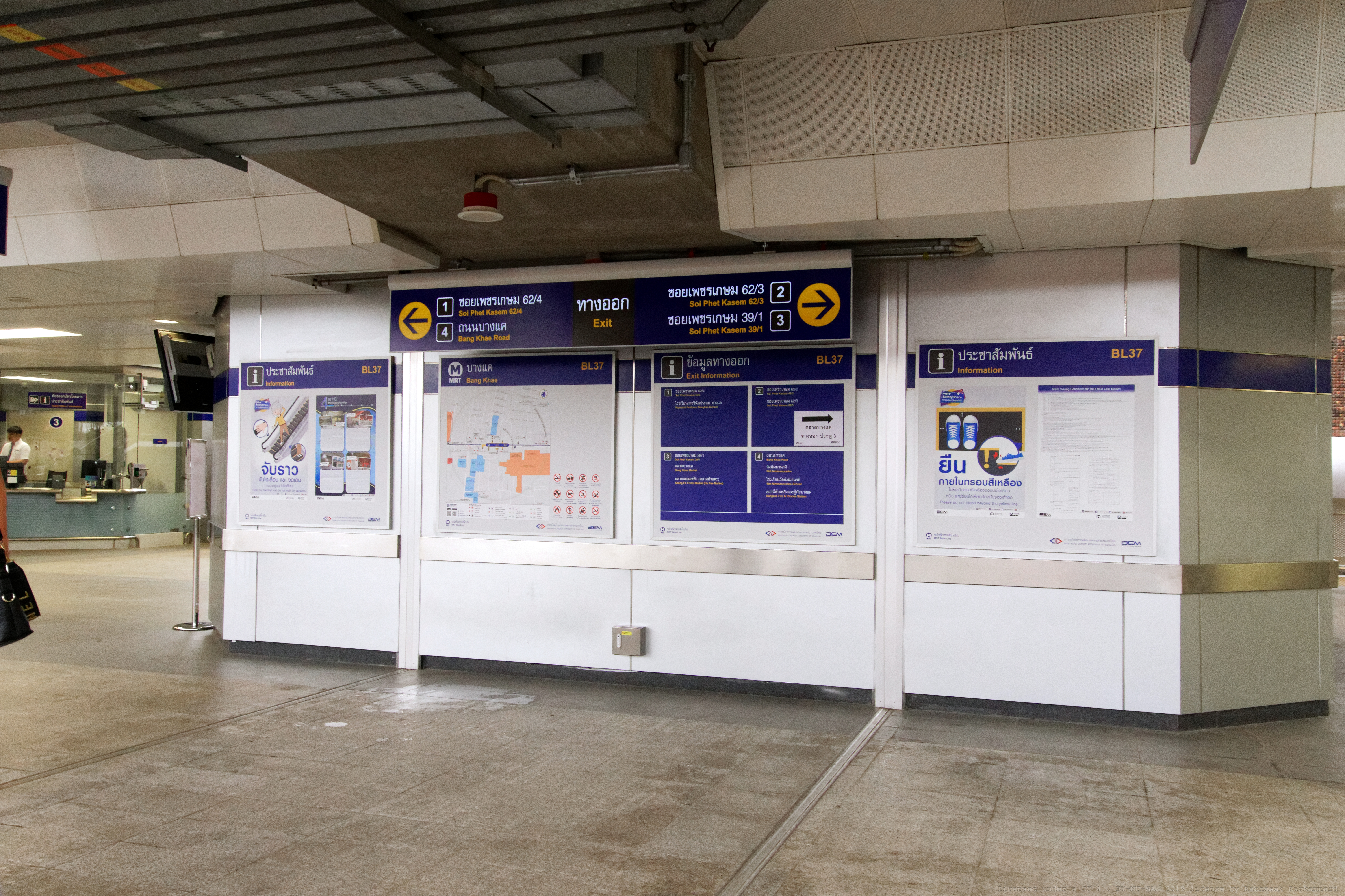 MRT Bangkae station: station exit and information signs